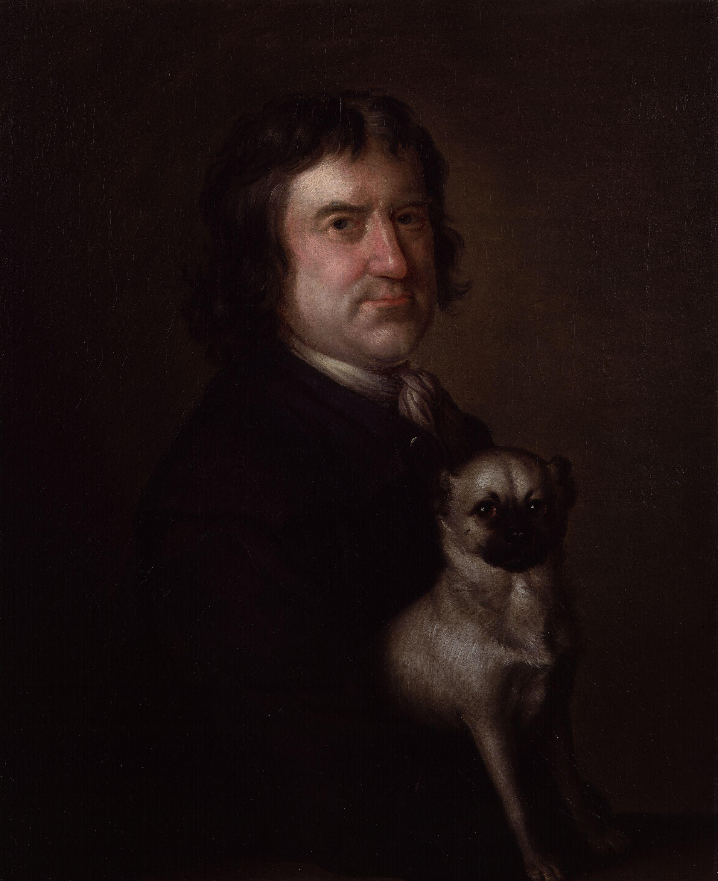 Bampfylde Moore Carew, by Richard Phelps (died 1790). All images in this batch have been confirmed as author died before 1939 according to the official death date listed by the NPG.